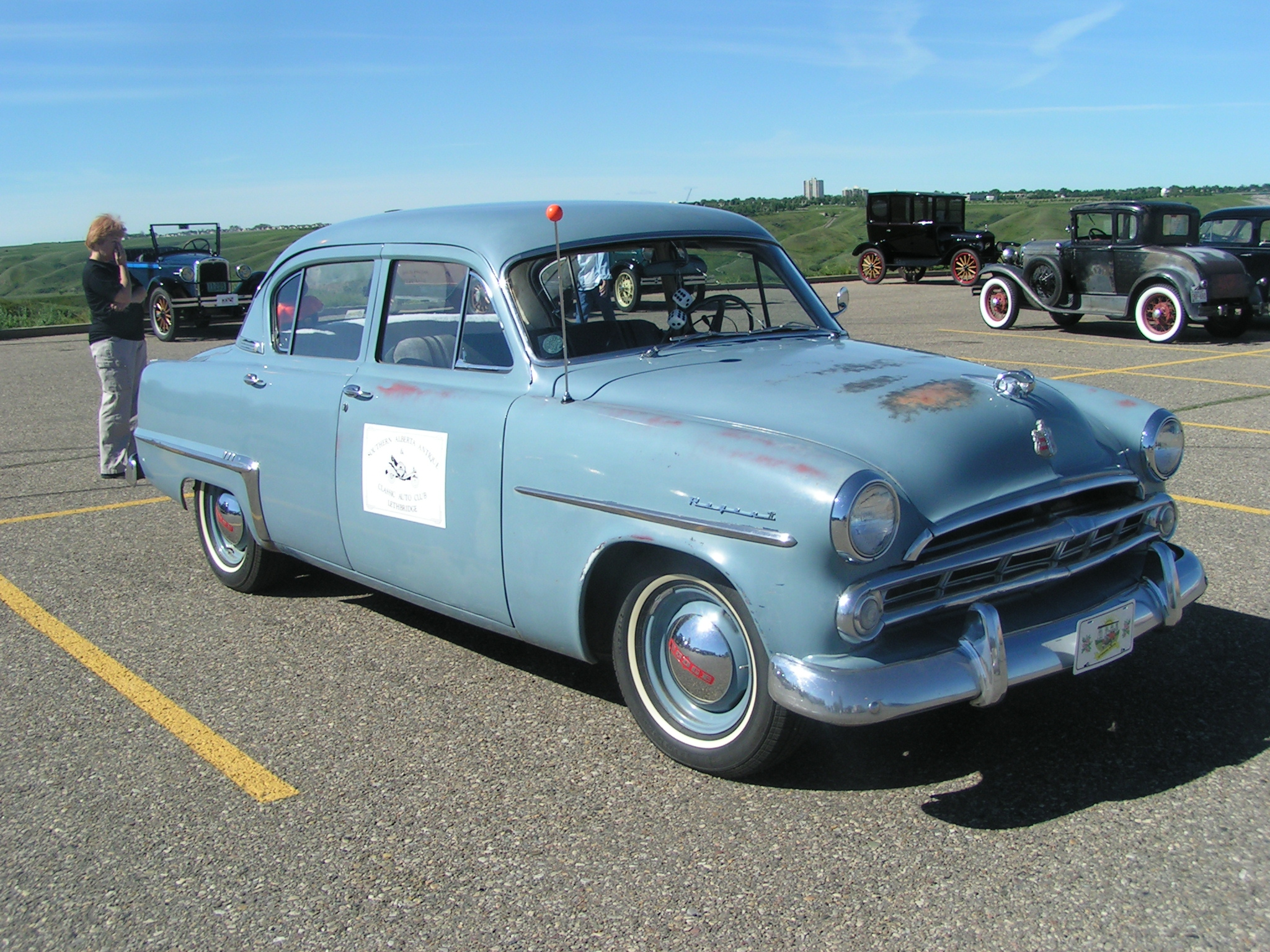 An older picture from the Lethbridge Vintage Show in 2005